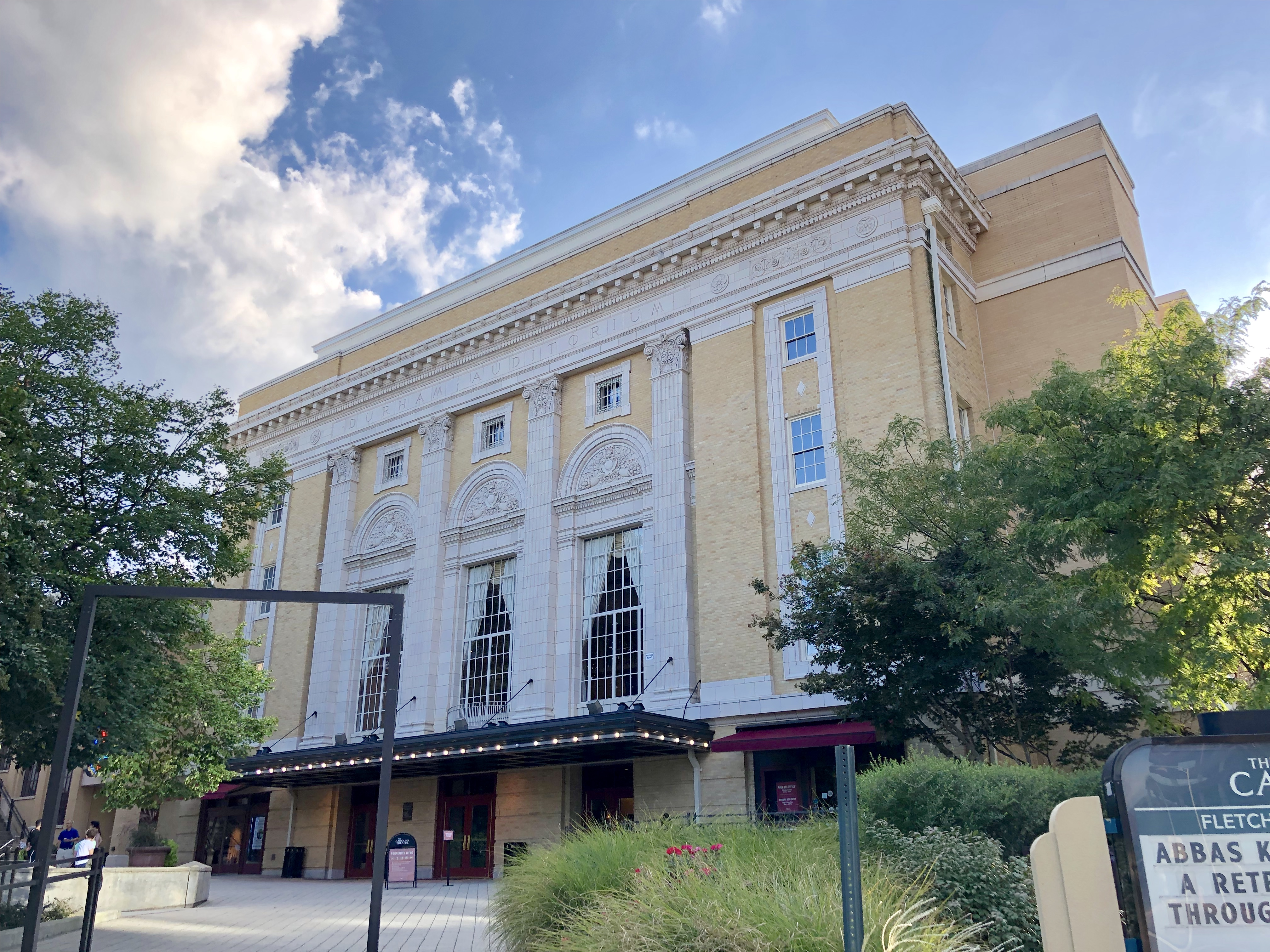 This is the Carolina Theatre, located on West Morgan Street in Downtown Durham, North Carolina. Constructed in 1925-26, the building is a contributing structure to the Downtown Durham Historic District, listed on the National Register of Historic Places in 1977.